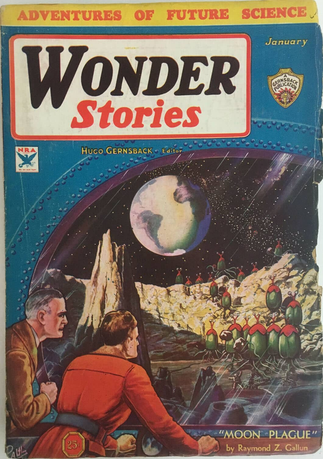 Cover of the pulp magazine Wonder Stories (January 1934, vol. 5, no. 6) featuring Moon Plague.